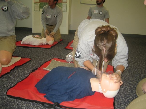 AmeriCorps volunteers attend American Red Cross CPR training.